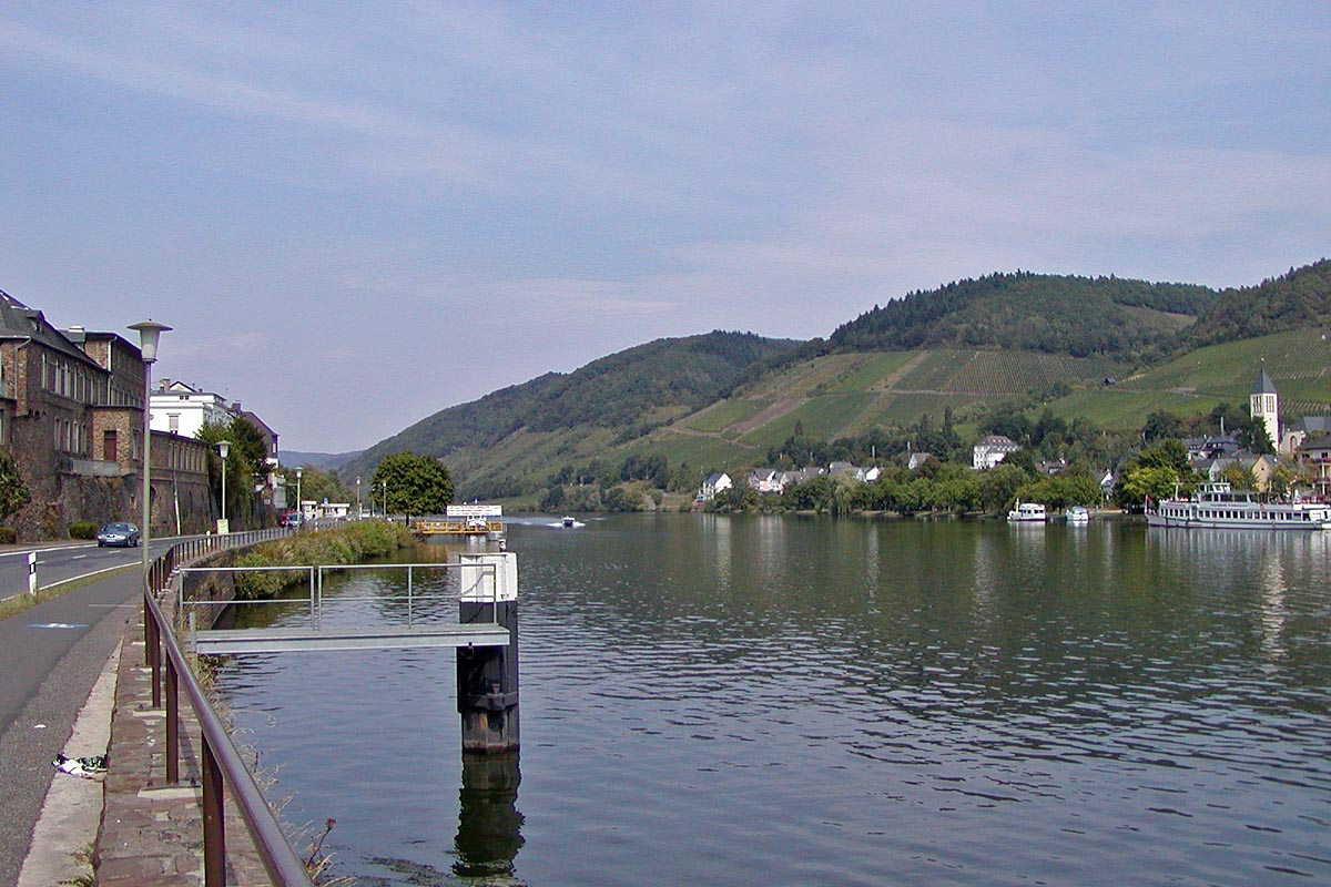 Photo of Mosel River at Bullay, Rhineland-Palatinate, Germany